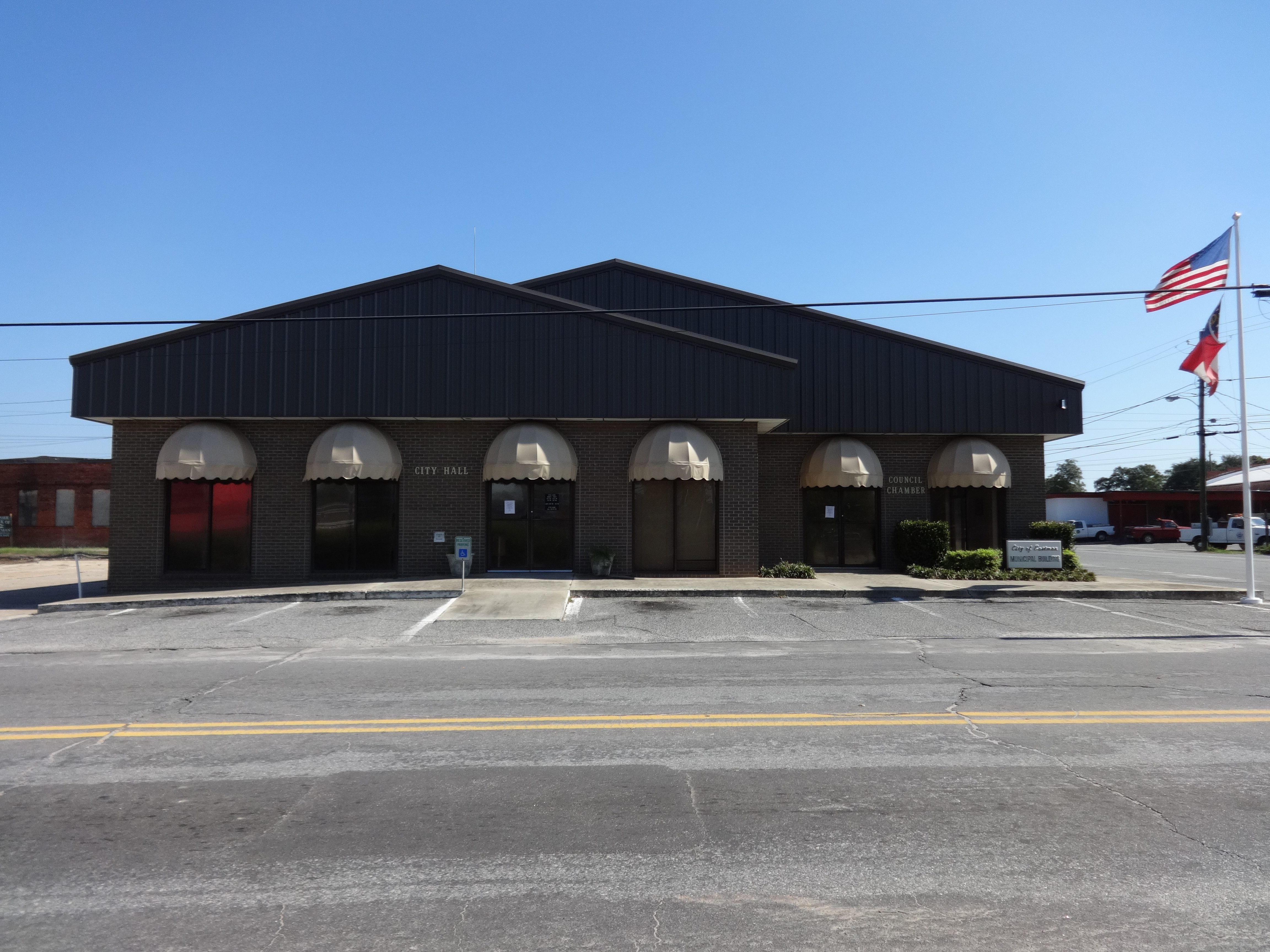 Eastman Municipal Building, City Hall, Council Chamber, 333 College St., Eastman, Dodge County, Georgia